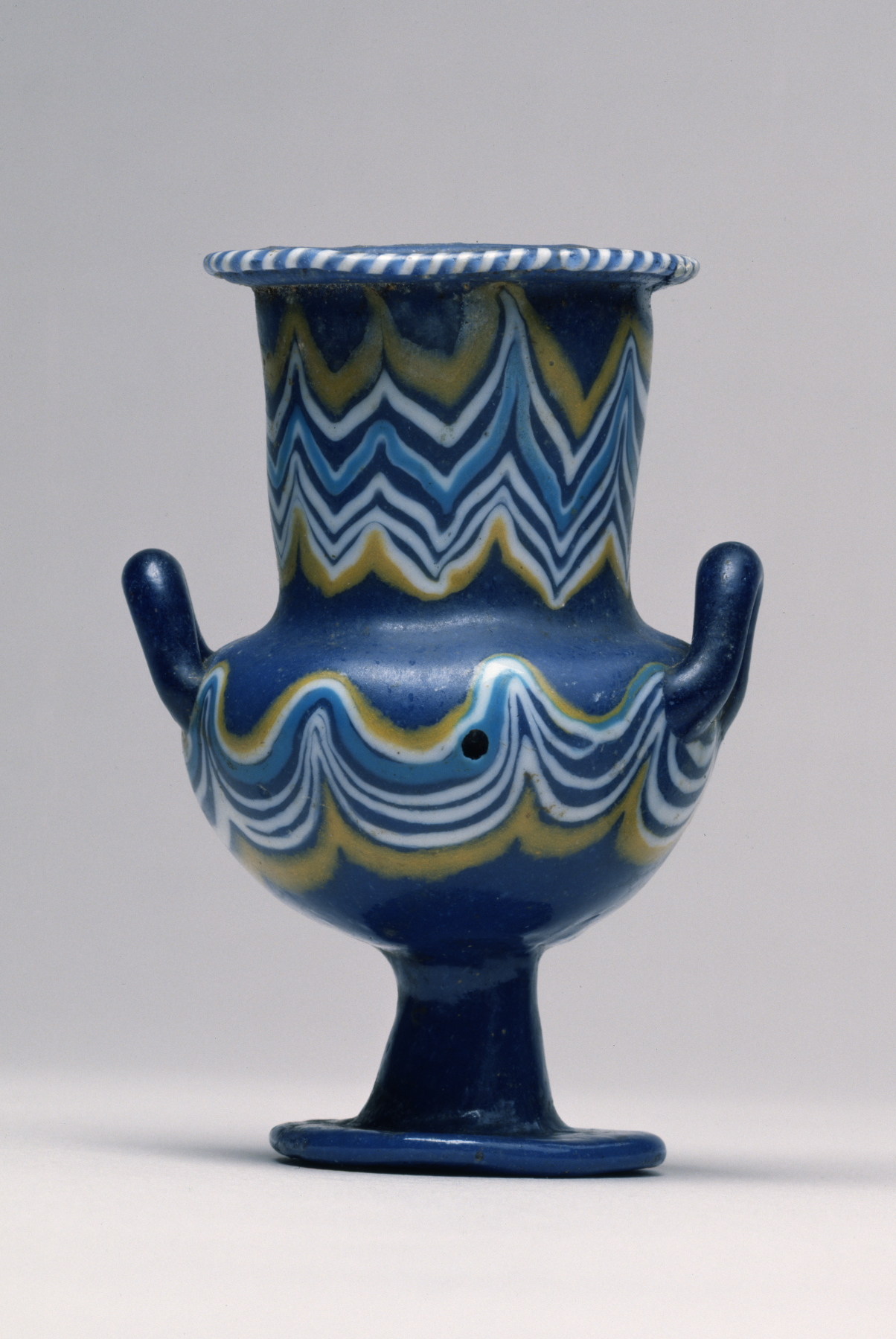 Although the manufacture of faience can be traced back to the predynastic period (the fourth millennium BCE), the production of true glass did not emerge in Egypt until the early 18th Dynasty, around 1500 BC. Recent excavations and technical analysis support the hypothesis that the technology of glassmaking was imported from western Asia. Both raw glass, in the form of large ingots, and finished vessels were likely imported at an early stage, as were the artisans themselves. Within a short time, however, the Egyptians had developed a highly sophisticated industry that flourished under Amenhotep III (1390-1352 BC) and his successor, Akhenaten (1352-1336 BC). Polychrome glass seems to have been particularly esteemed by the court; large numbers of vessels have been found in the tombs of 18th Dynasty pharaohs. The contents of many glass flasks-fragrant essences dissolved in plant-based oils-confirm their status as objects of high luxury. In addition to its use in jewelry, amulets, inlays, and architectural decoration, glass was used for vessels, particularly distinctively shaped perfume bottles. The two most common shapes take their names from distinctive types of Greek pottery: "amphoriskos" (little amphora) and "krateriskos" (little krater). The Walters "amphoriskos" (Walters 47.31), broad shouldered with a rounded base, has an opaque white ground; this "krateriskos" has a cobalt blue body decorated with white, yellow and light blue bands, two horizontal handles, applied to the shoulder, and a wide foot. Both are core-formed vessels; the technology of blown glass was as yet unknown. The molten mass, composed of silica and natron (heated to a temperature of around 1000º-1150º C), was wrapped around a clay or dung core that was later removed. Decorative bands were formed by pressing threads of colored glass onto the molten surface; combing the threads with a metal tool created decorative patterns.